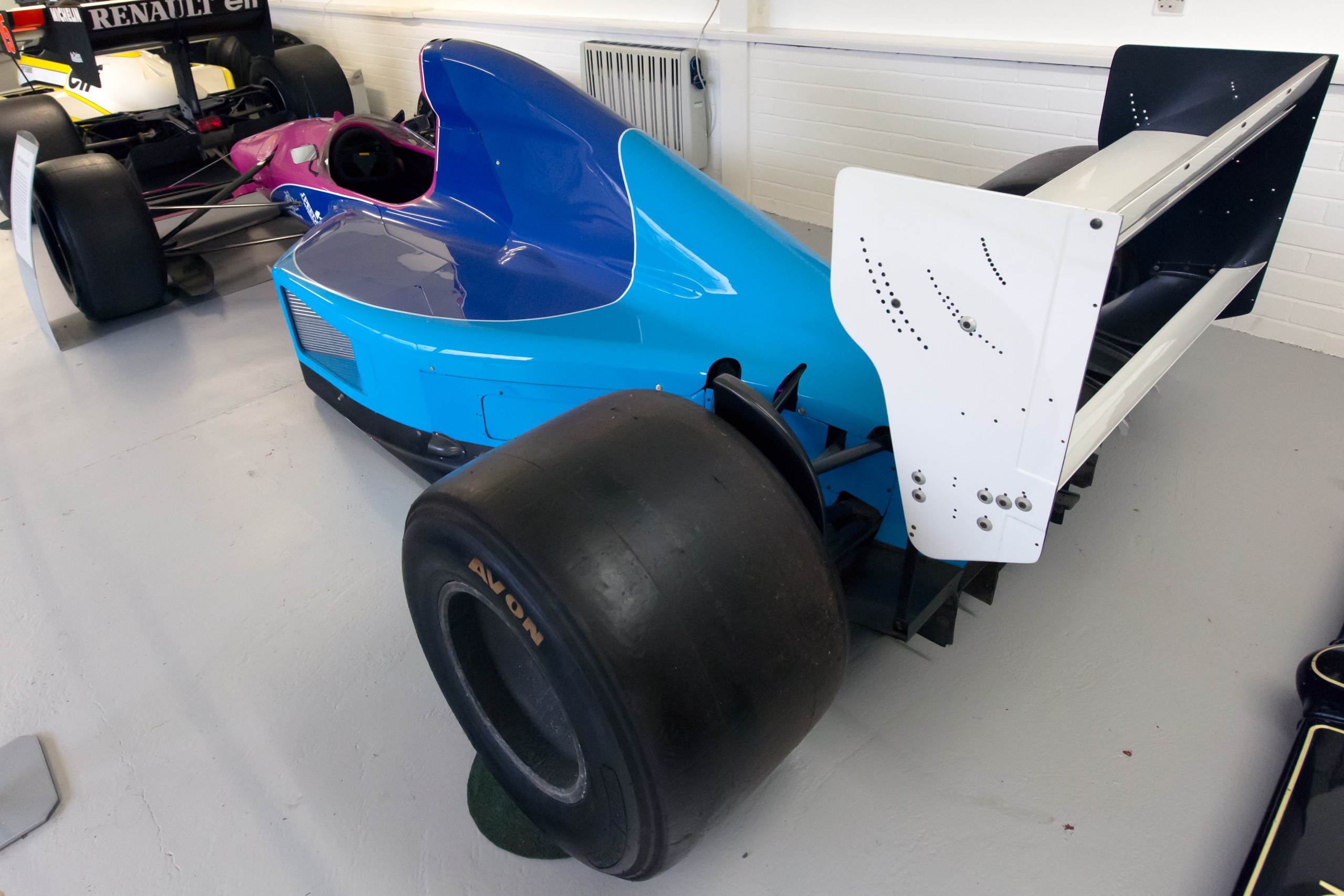 1992 Brabham BT60B (#8 Damon Hill)